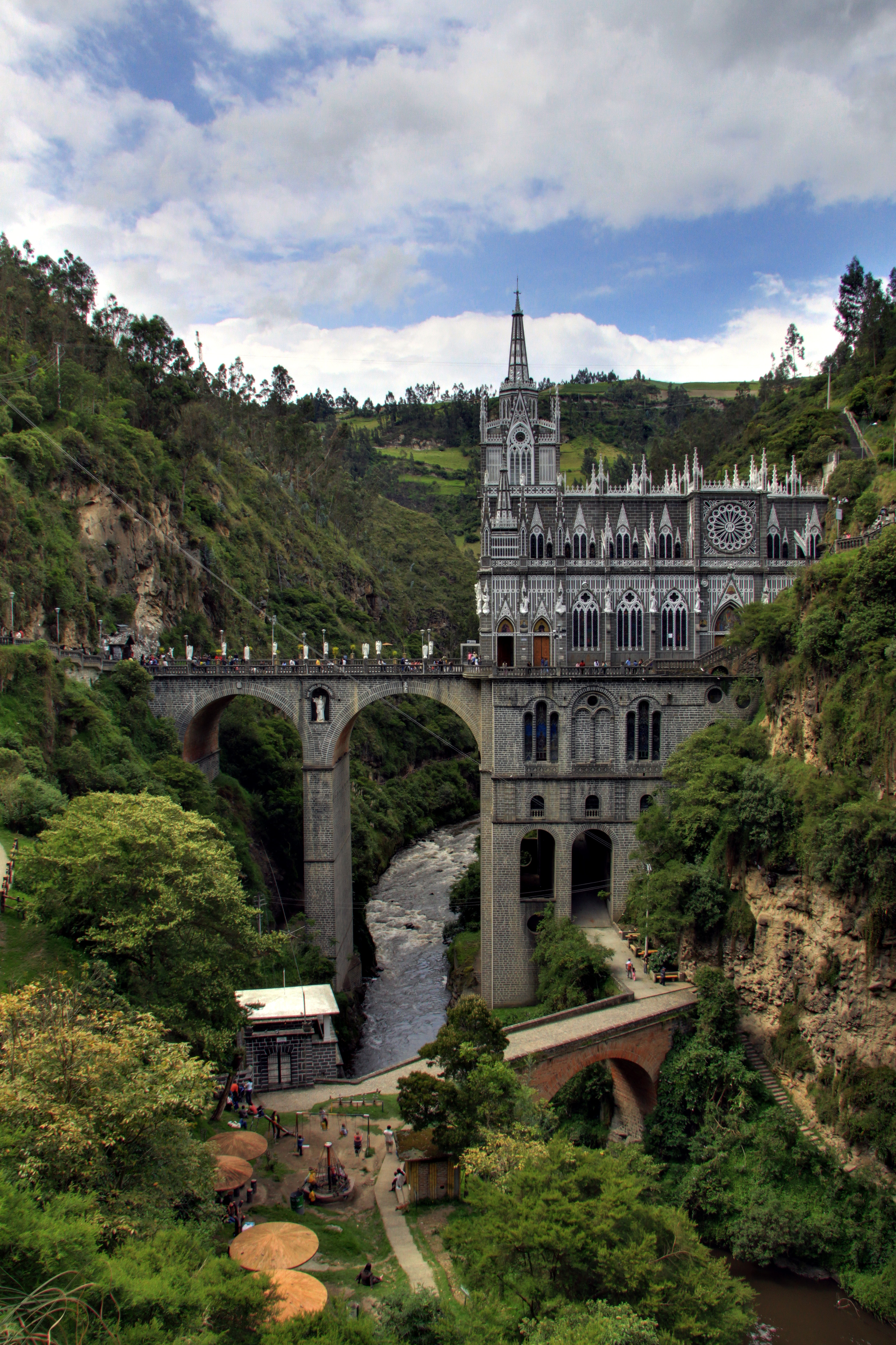 Please, have this description accessible to all by translating it in different languages.